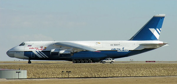 Antonov An-124 Ruslan ("Condor") transport at Denver International Airport.